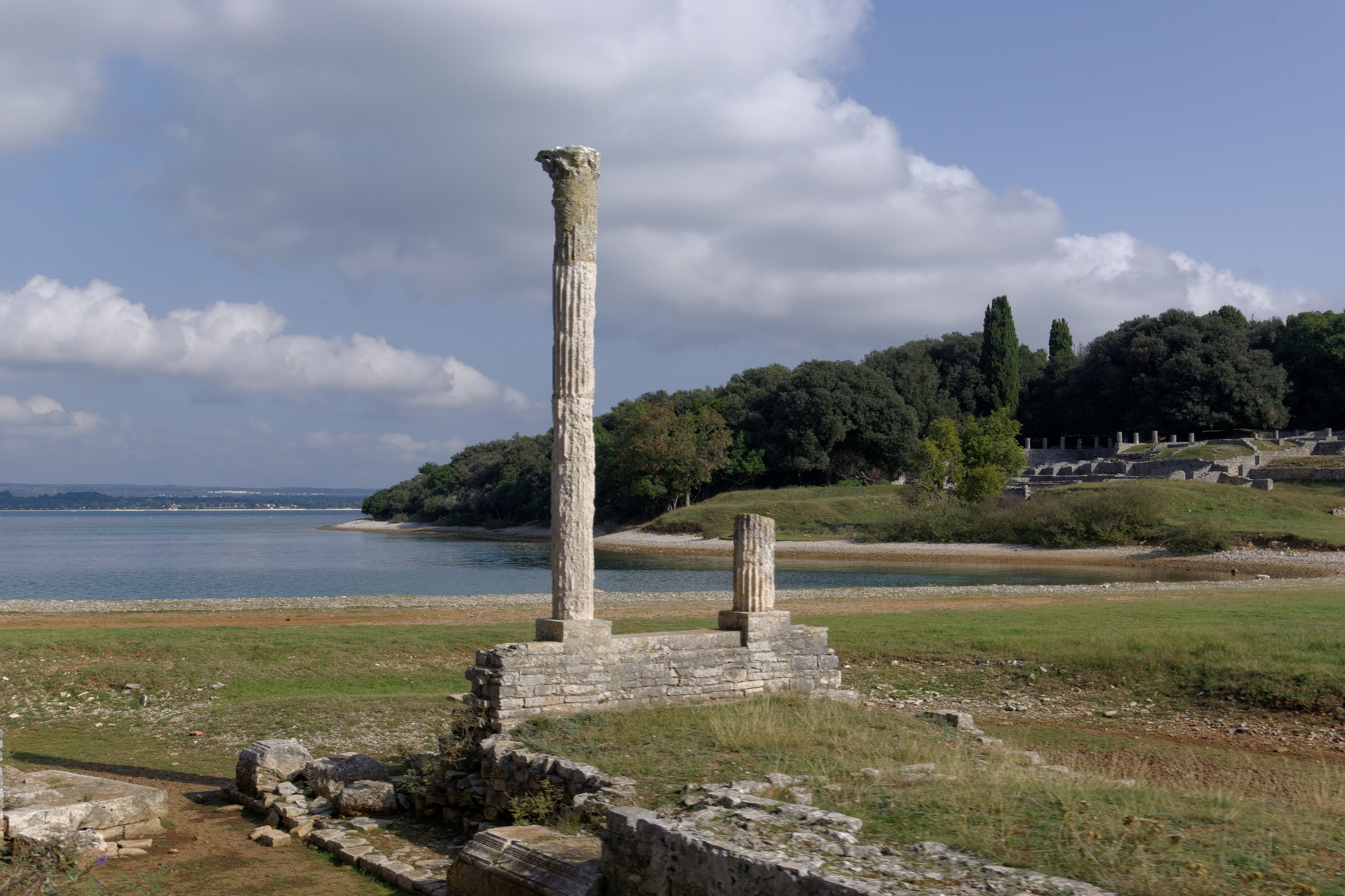 Croatia, Brijuni, Roman Villa in the Bay of Verige